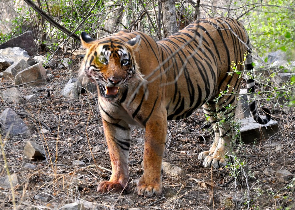 T 24 in Ranthambore